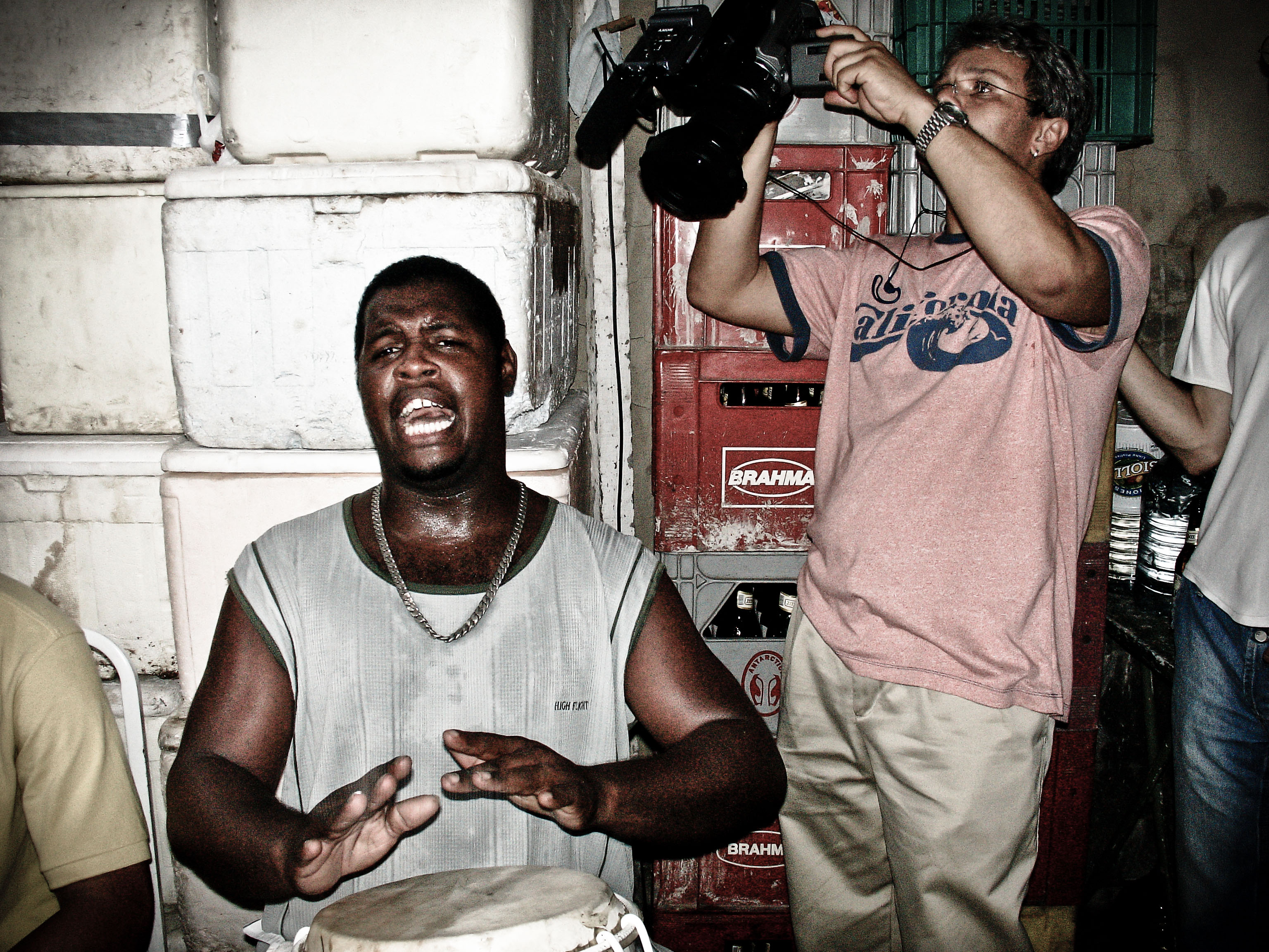 On location at the Umbanda terrier in the slums of Rio de Janeiro during the filming of “Samba in your Feet”.